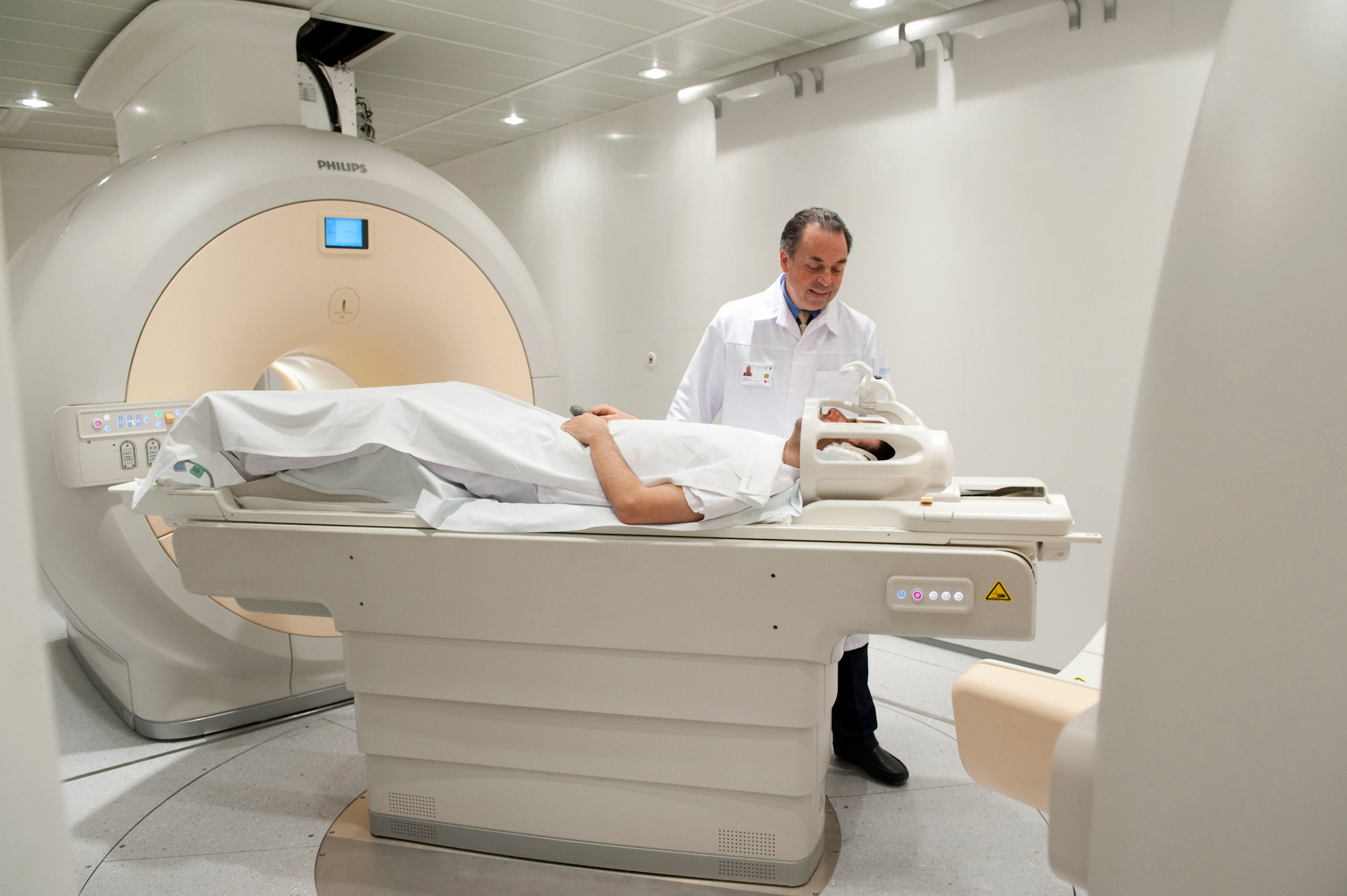 A patient turns 180° on a floor-based turntable to enter separate MRI and PET for diagnostic tests. Courtesy of Julien Gregorio/HUG. Visit the Nuclear Regulatory Commission's website at To comment on this photo go to Photo Usage Guidelines: Privacy Policy